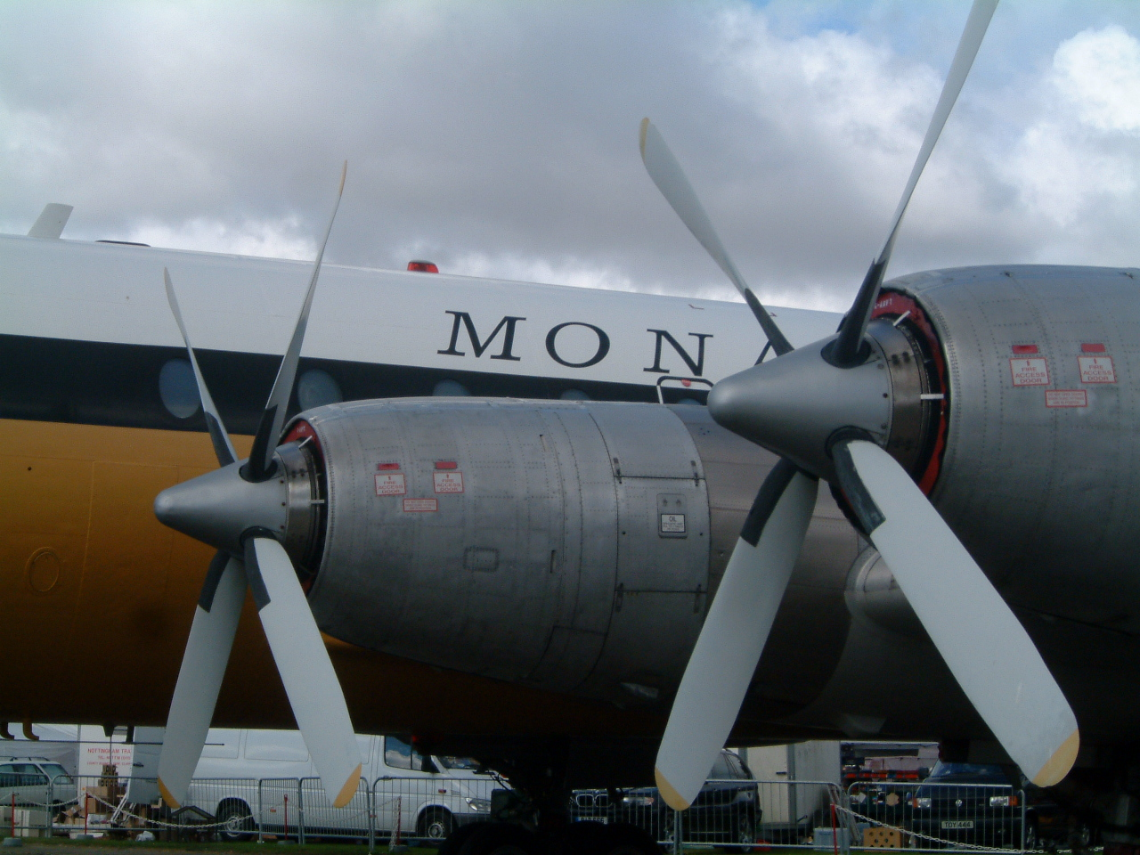 Engines of a Bristol Britannia airliner in Monarch Airlines livery. Seen at Duxford.